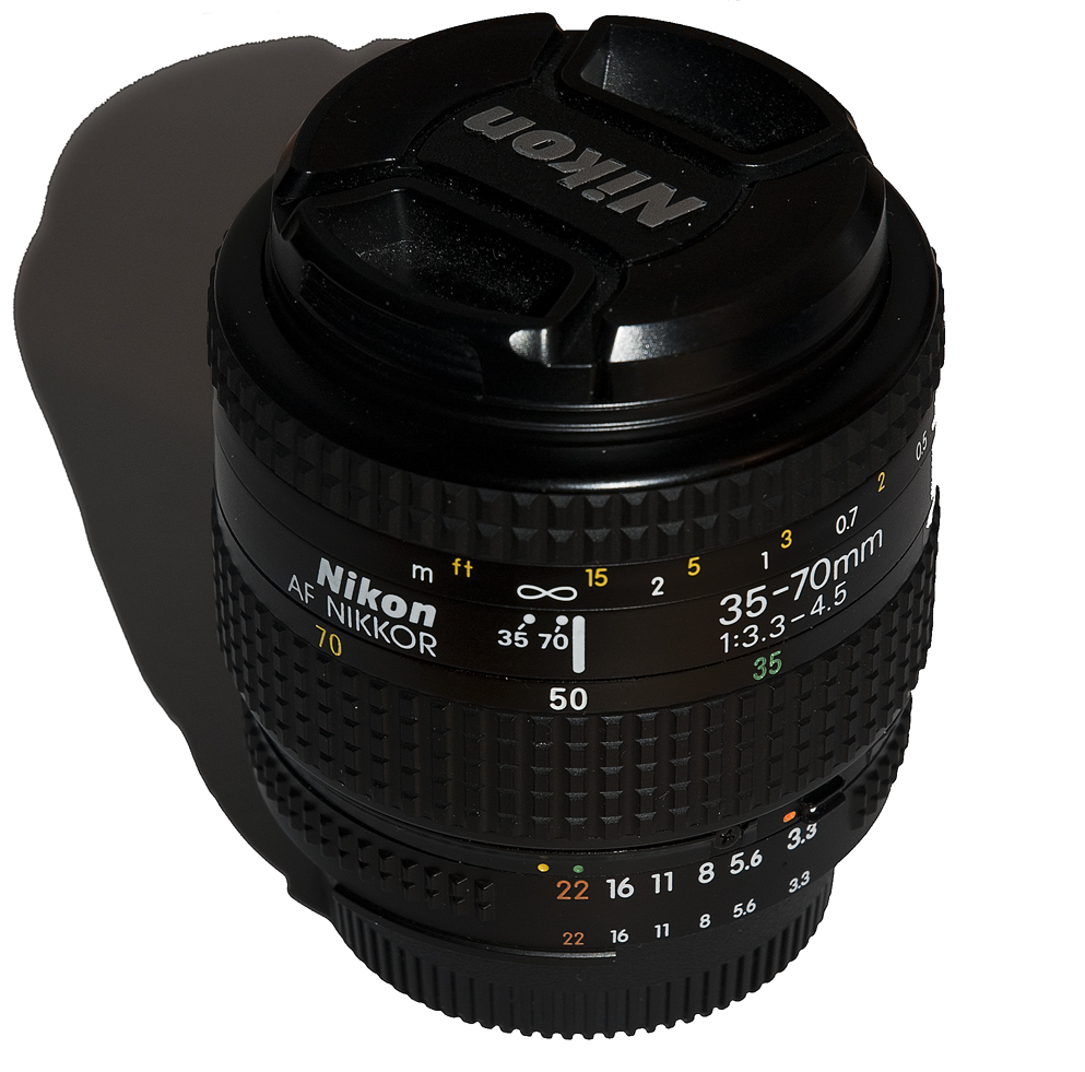 Nikon 35-70mm f3.3 - f4.5 Mark II